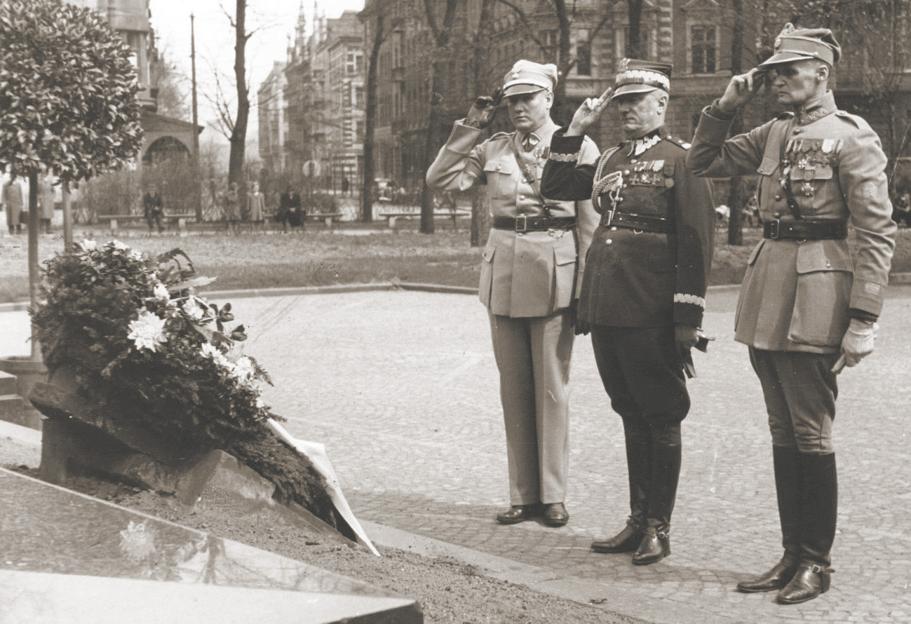 Jerzy Wołkowicki (1883-1983) – General of the Polish Army